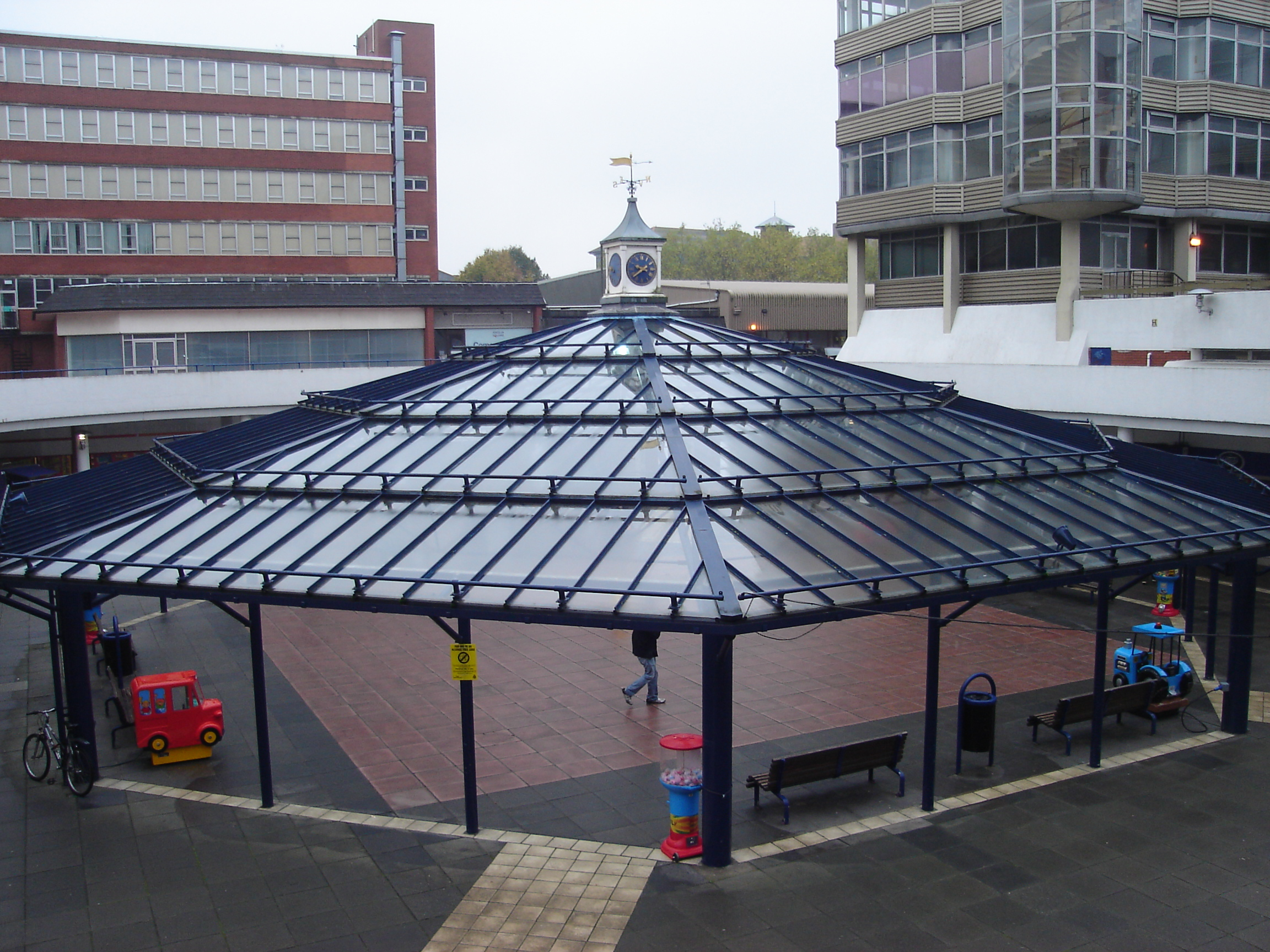 Picture of Anglia Square, Norwich